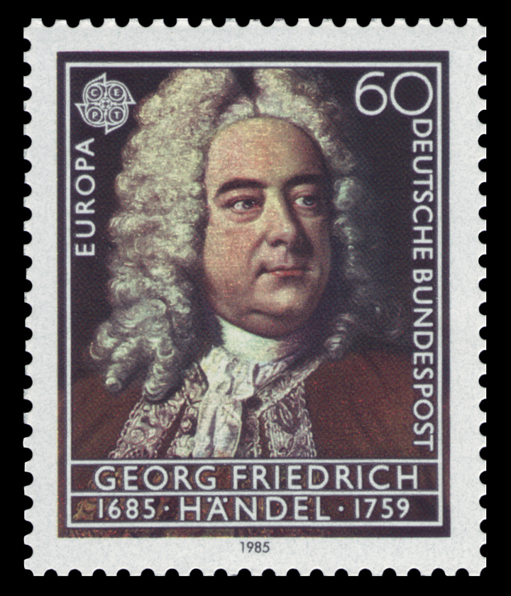 Europa postage stamps, European year of music and 300th day of birth of Georg Friedrich Händel (1685—1759) and Johann Sebastian Bach (1985—1750)